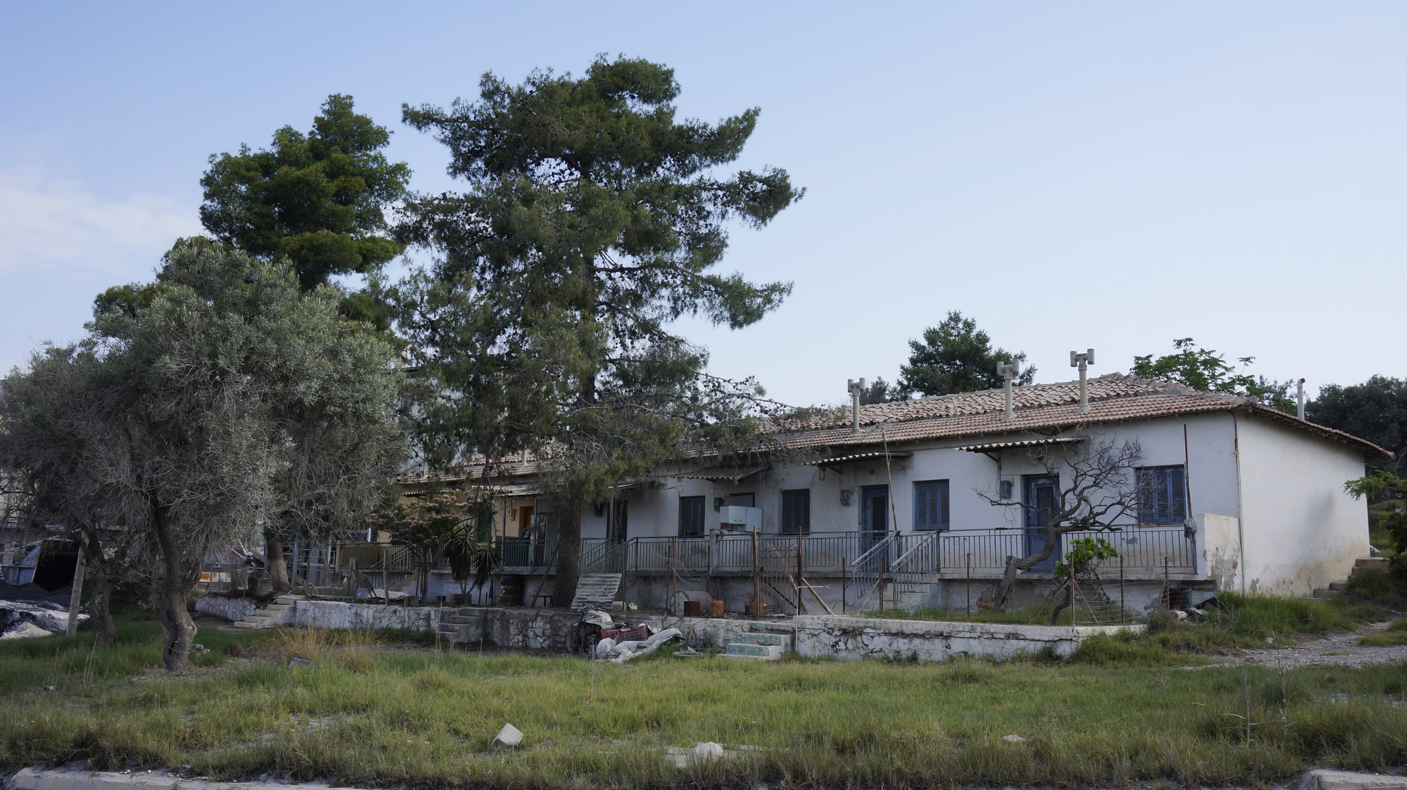 A workers residence, built by the Anglo-Greek Magnesite Co, Ltd, in Yerakini in the "Kilns" (Fourni) area of Yerakini, Chalkidiki, Greece, June 2014